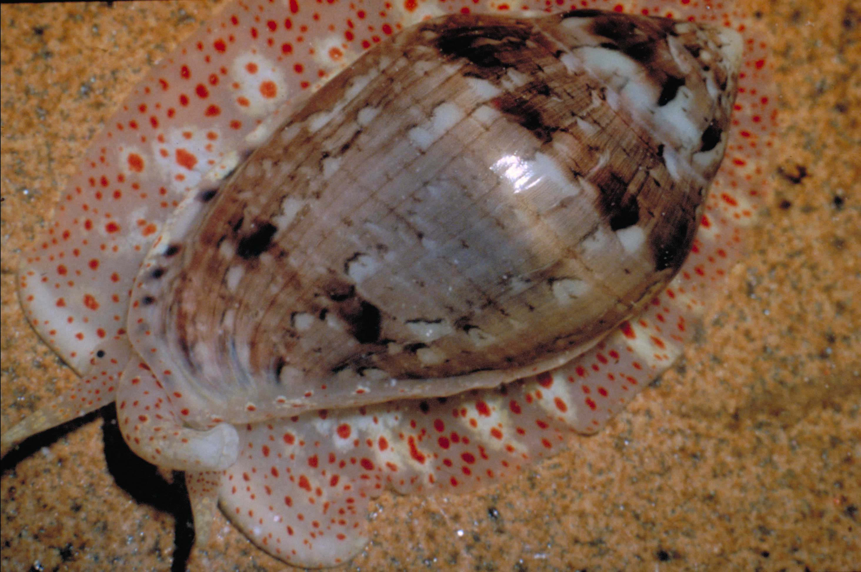 Species: Marginella rosea Hutton, 1873. False Bay, South Africa